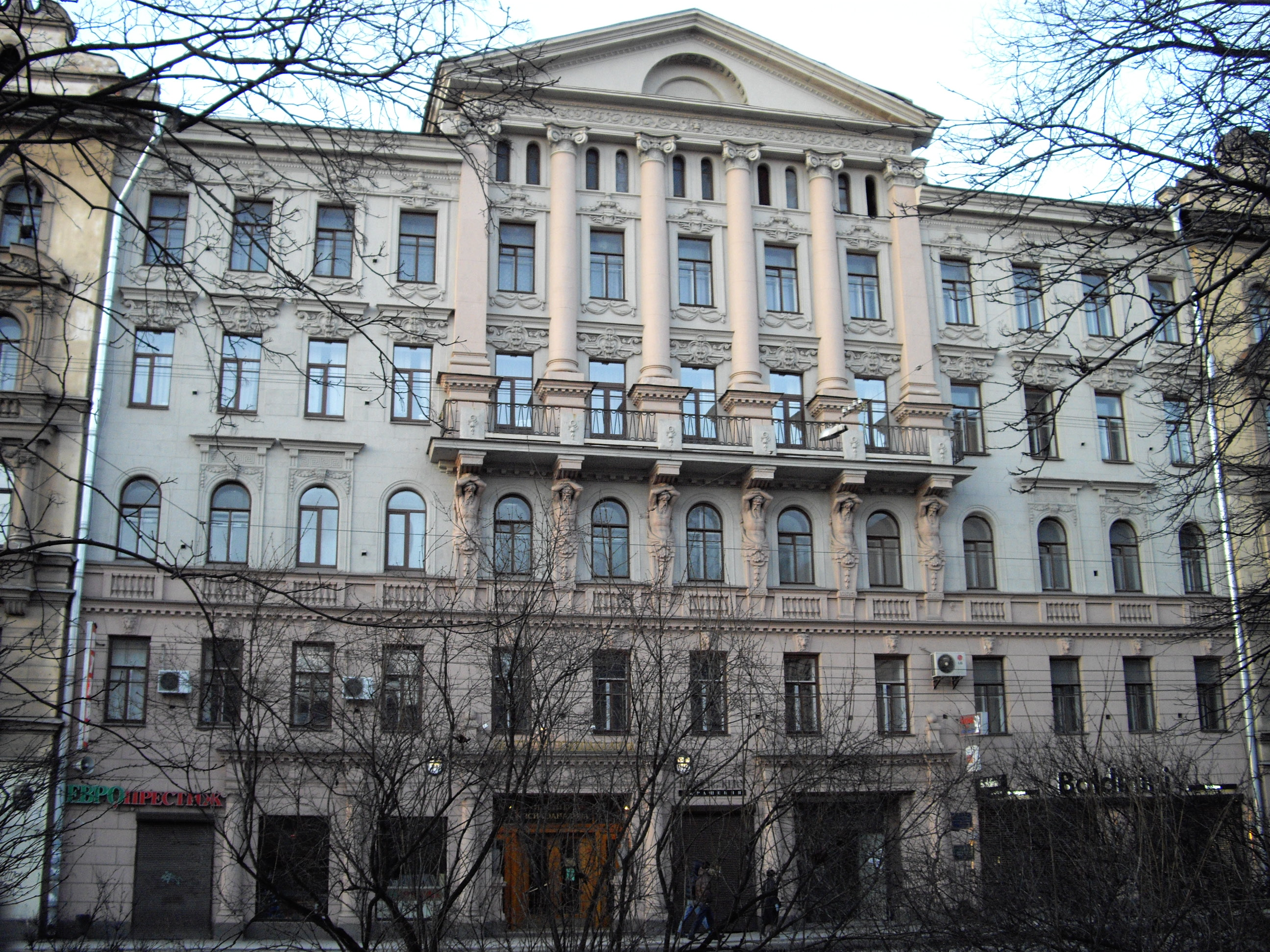 18a, Bolshoy Prospect P.S. (Grand avenue of the Petrograd side), Saint-Petersburg, Russia. Architect Pavel Mulkhanov (completed by Dmitry Kryzhanovsky), 1910s.